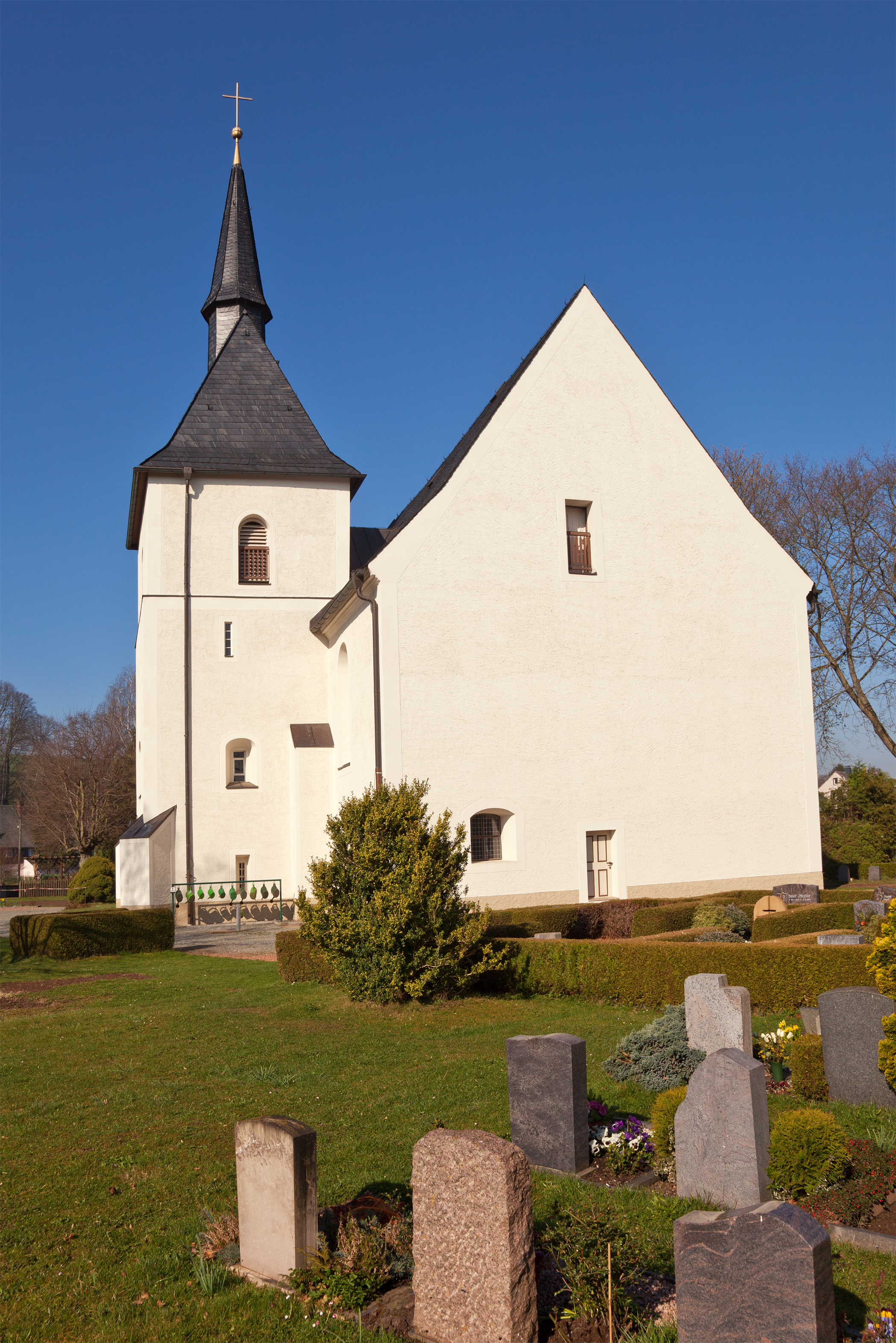 St. Egidien, Saxony, church "Unserer lieben Frauen"